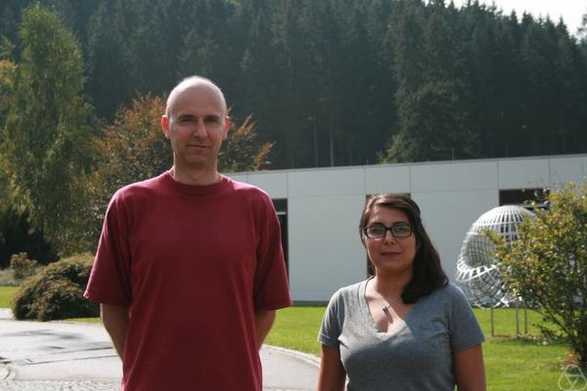 Hansjörg Geiges, Sinem Celik Onaran, Oberwolfach 2012